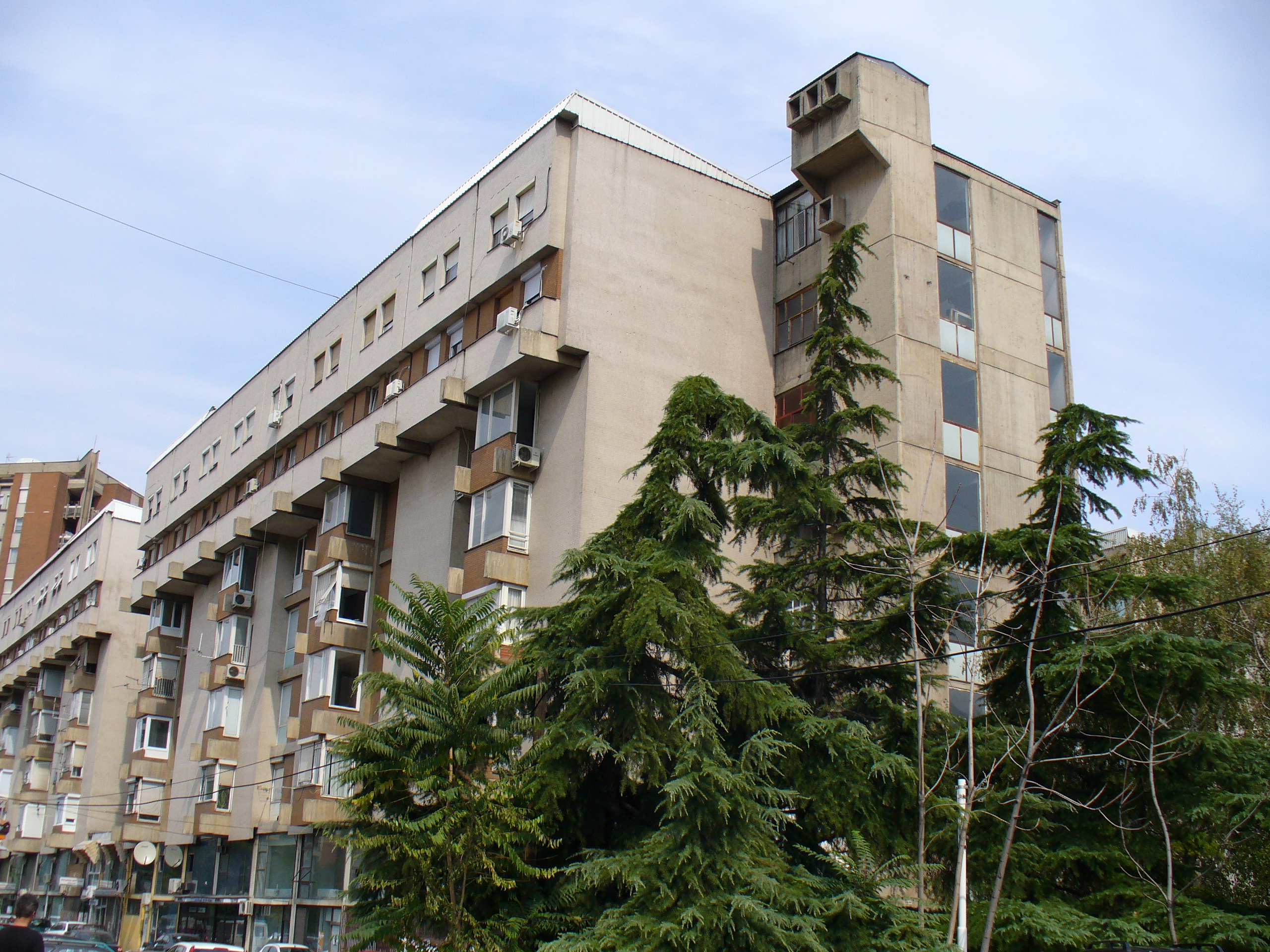 City Wall, Skopje, Macedonia